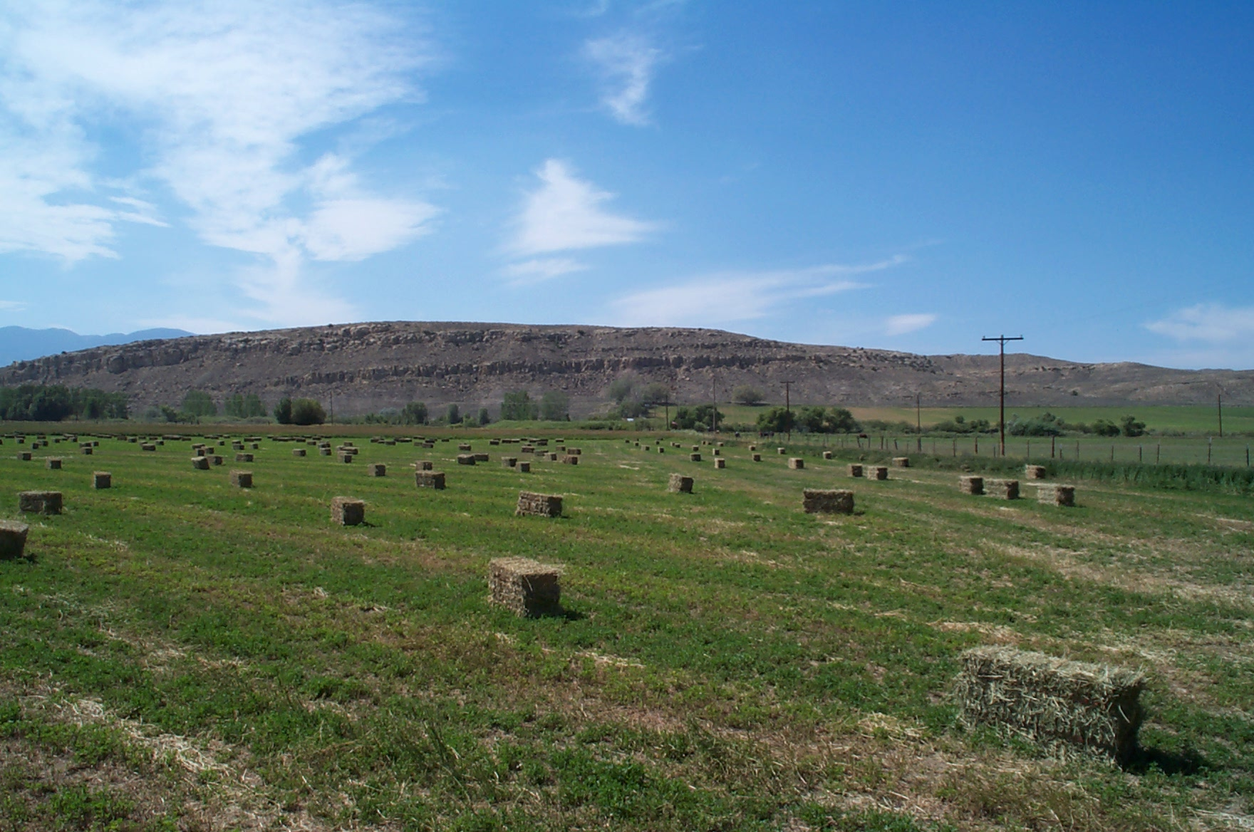 Square hay bales of Alfalfa (Medicago sativa) in a Montana field, USA